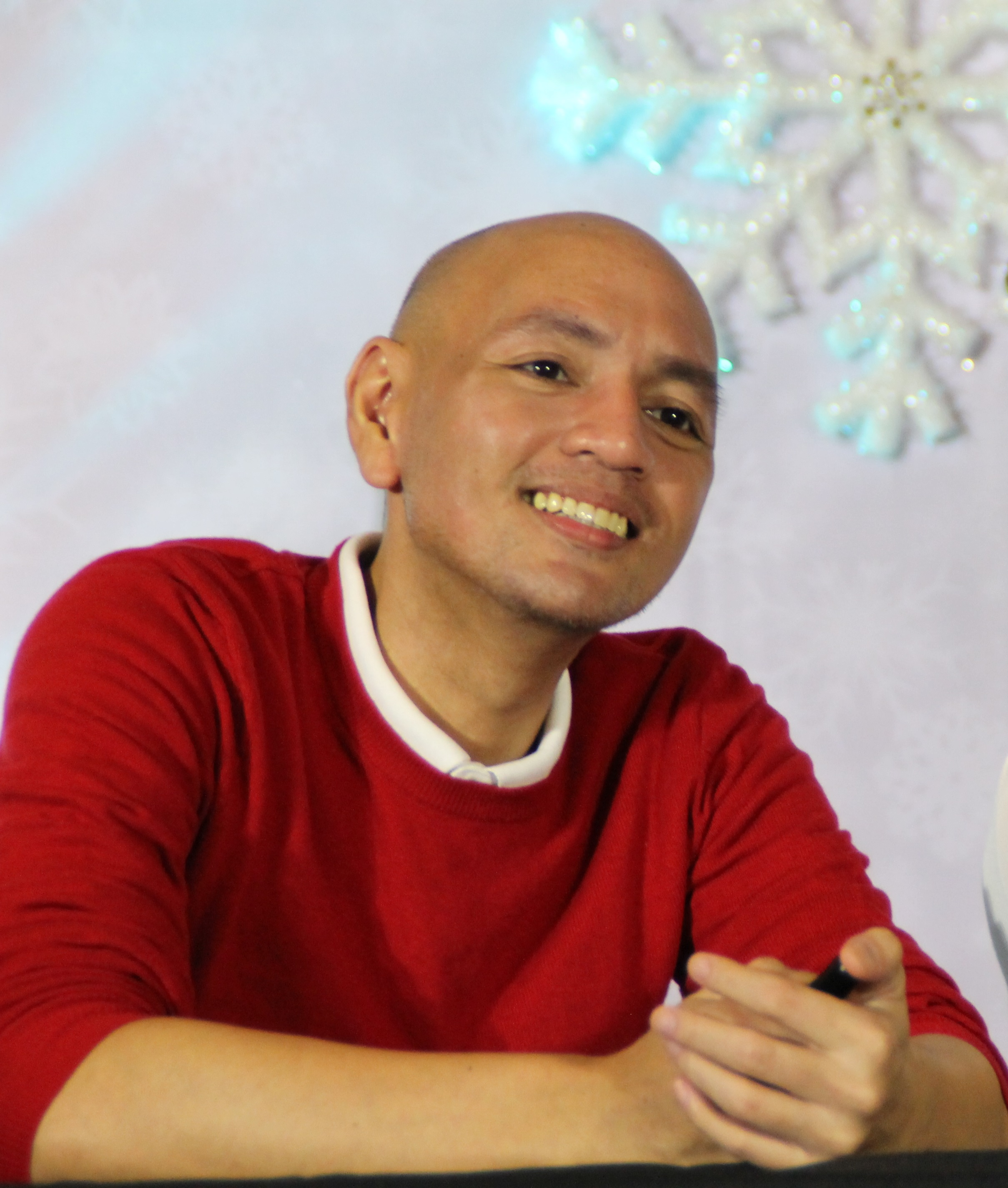 Singer/actor OJ Mariano